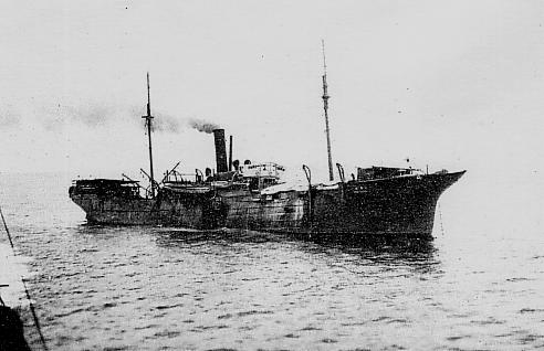 Kanikosen(Crab Canning Ship)